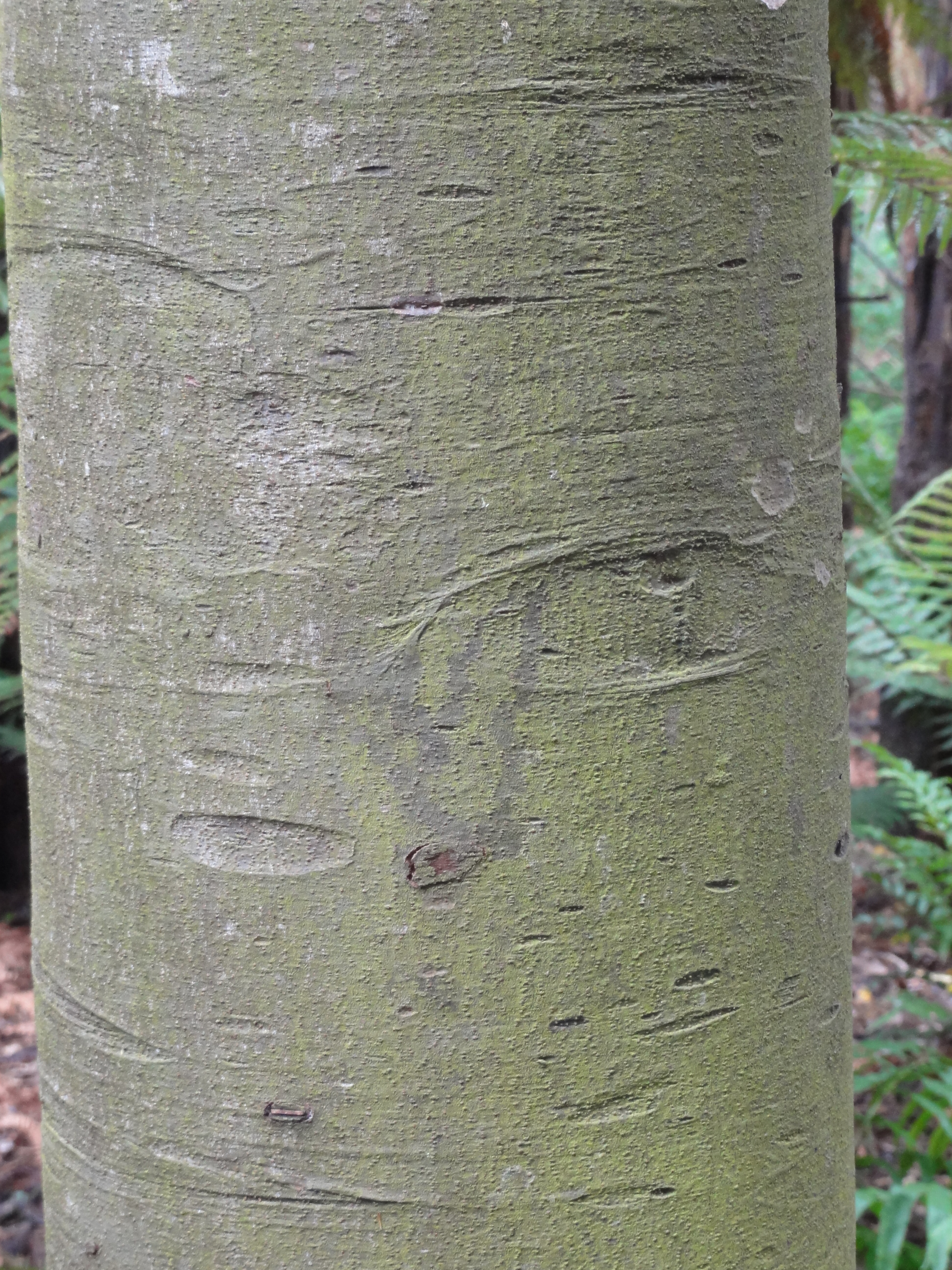 Prumnopytis taxifolia, stem bark of young tree; Christchurch Botanic Gardens